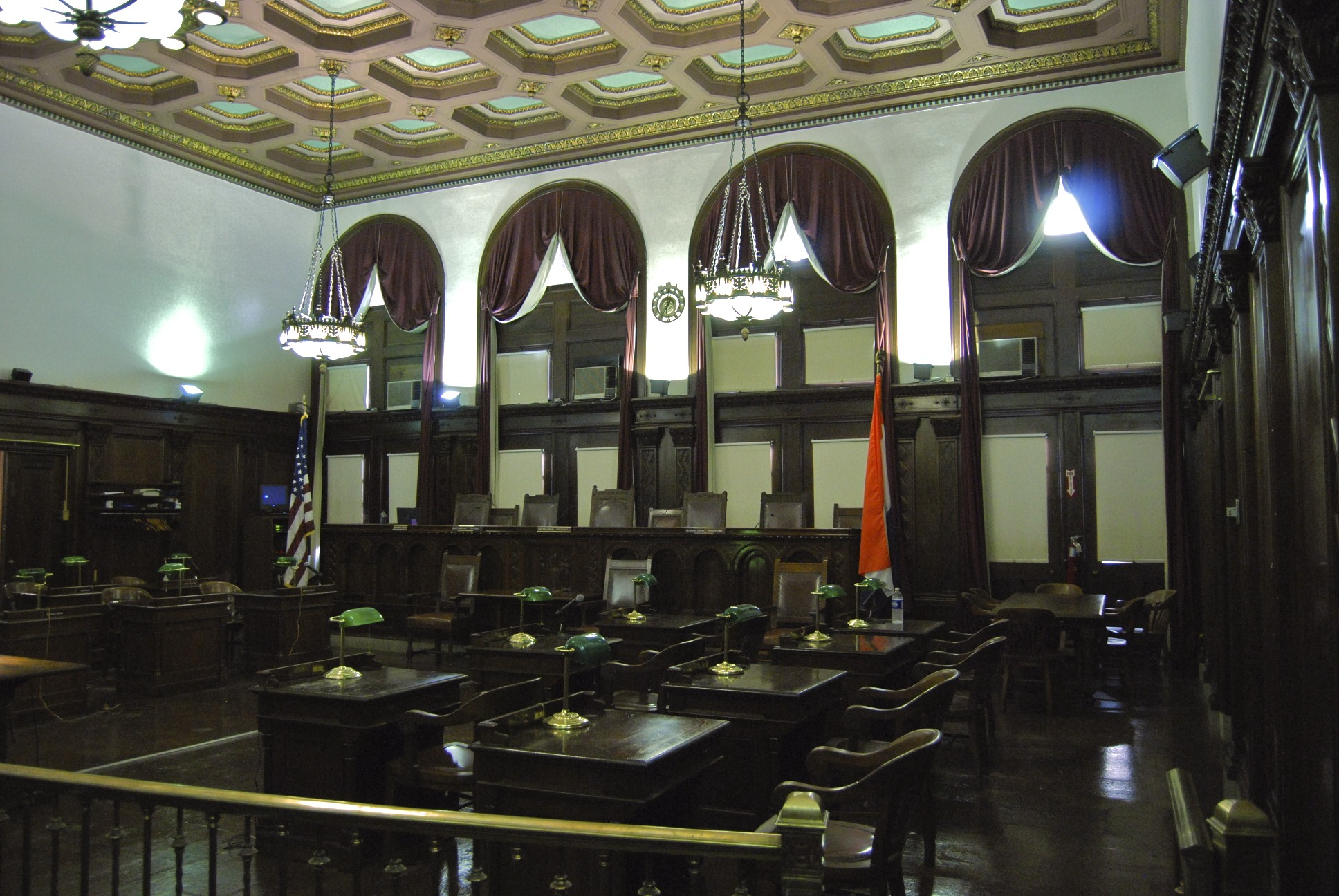 Chamber of the Albany Common Council in City Hall in Albany, New York, United States